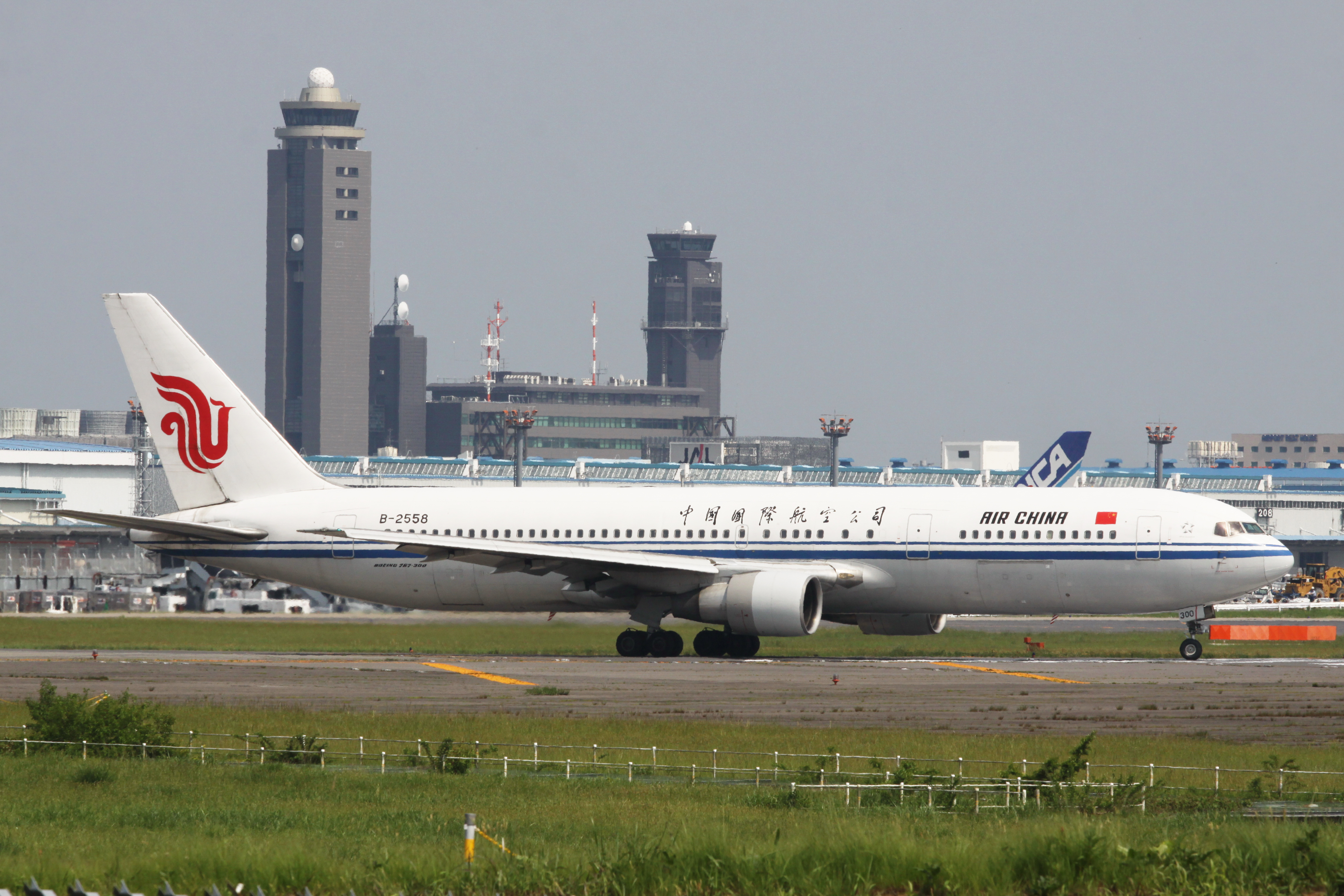 Air China B767-300(B-2558)